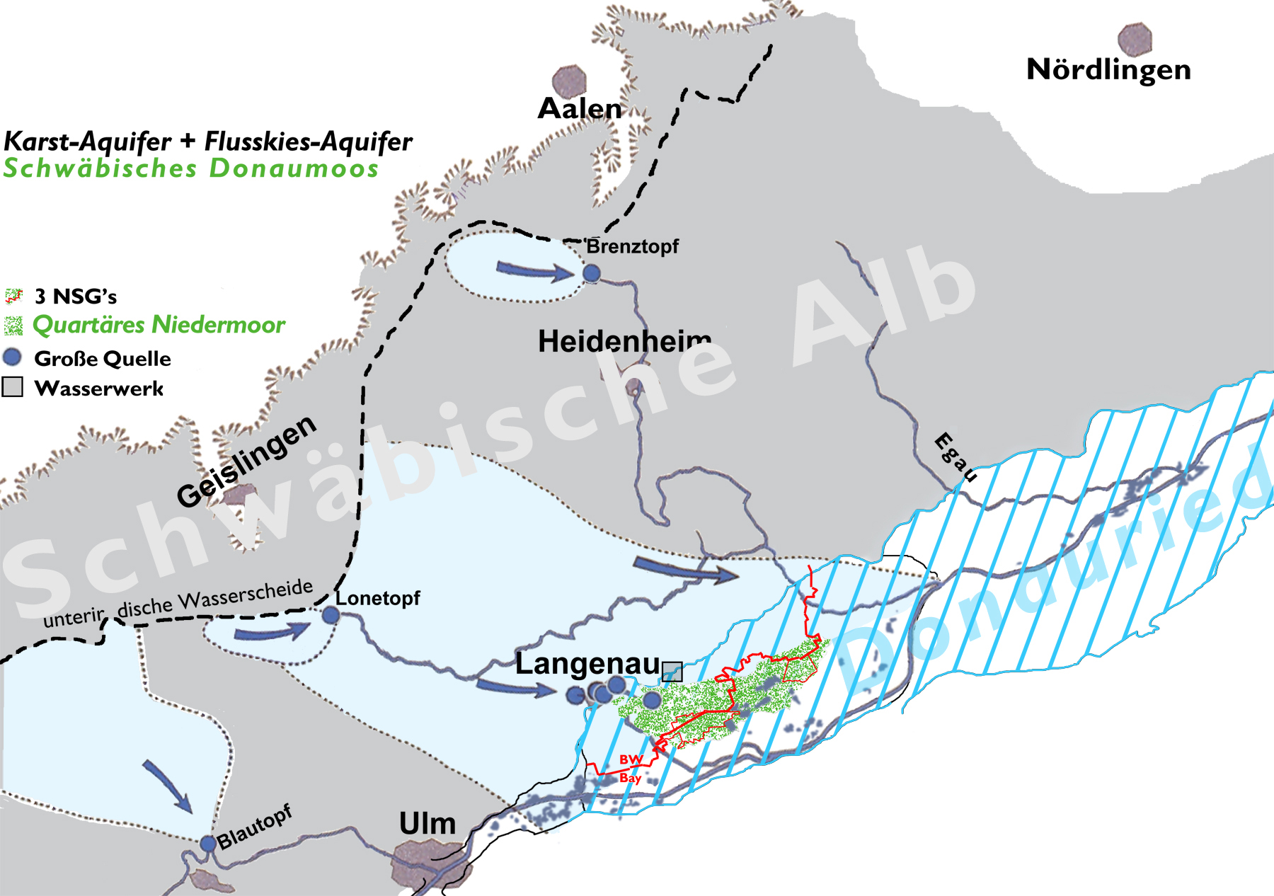 “Schwäbisches Donaumoos”, by nature a special western part of the natural region Donauried. The area next after Ulm/Langenau is a permanent wetland of ca. 7,5x15 km, devided by the border Baden-Württemberg and Bavaria. In this area the meltwater of the pleistocene river Upper Danube transported gravel, over time forming gravel beds of enormous size, functioning as a groundwater reservoir, which kept the surface a wetland. This kind of “full water tub” contains the karst waters of the southeastern Swabian Alb, mainly from river Lone and its dry valley-tributaries. This river network meanwhile percolates ca. 80% of its precipitation underground to the wetland area of the Danube. Four large karst springs in Langenau, the biotope/geotope]/natural monument Grimmensee, the Naturschutzgebiet “Langenauer Ried”, „Leipheimer Moos” and “Gundelfinger Moos” are legally protected.